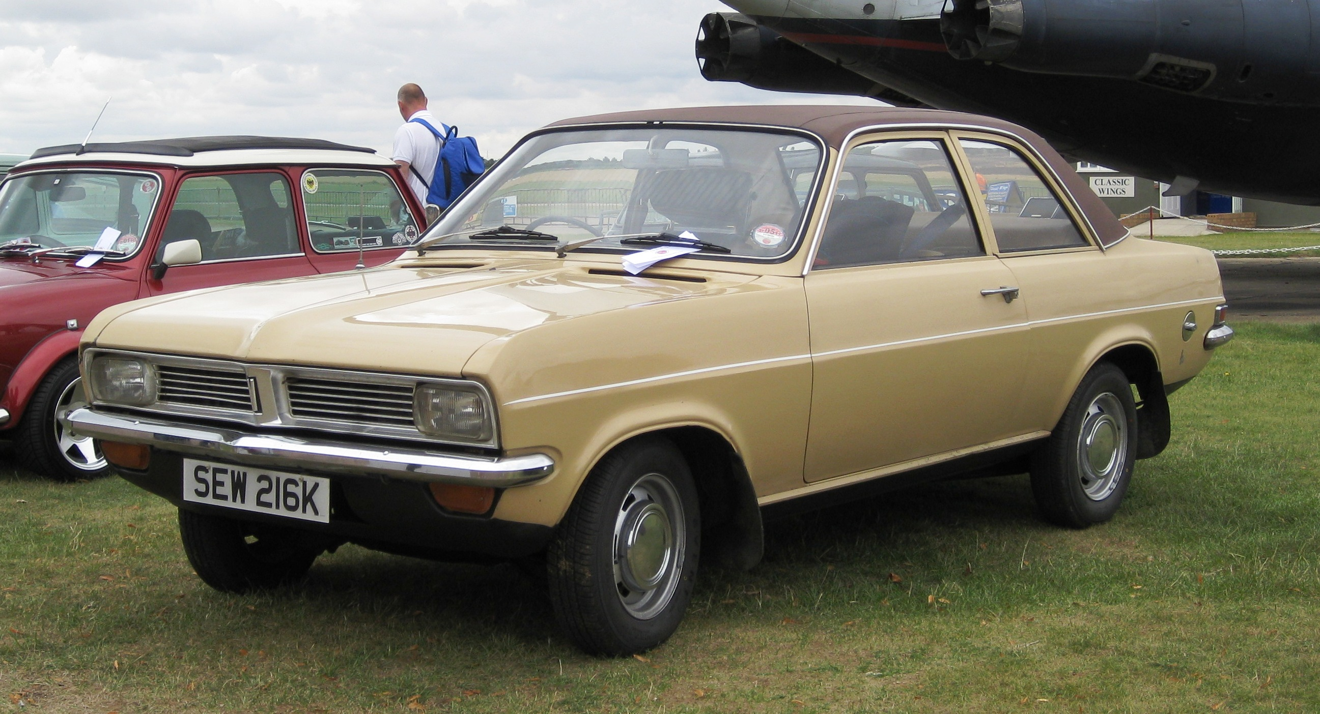 Vauxhall Viva HC. In the background is part of a large rear engined jet airliner without its engines. The car was photographed at Duxford aircraft etc museum.